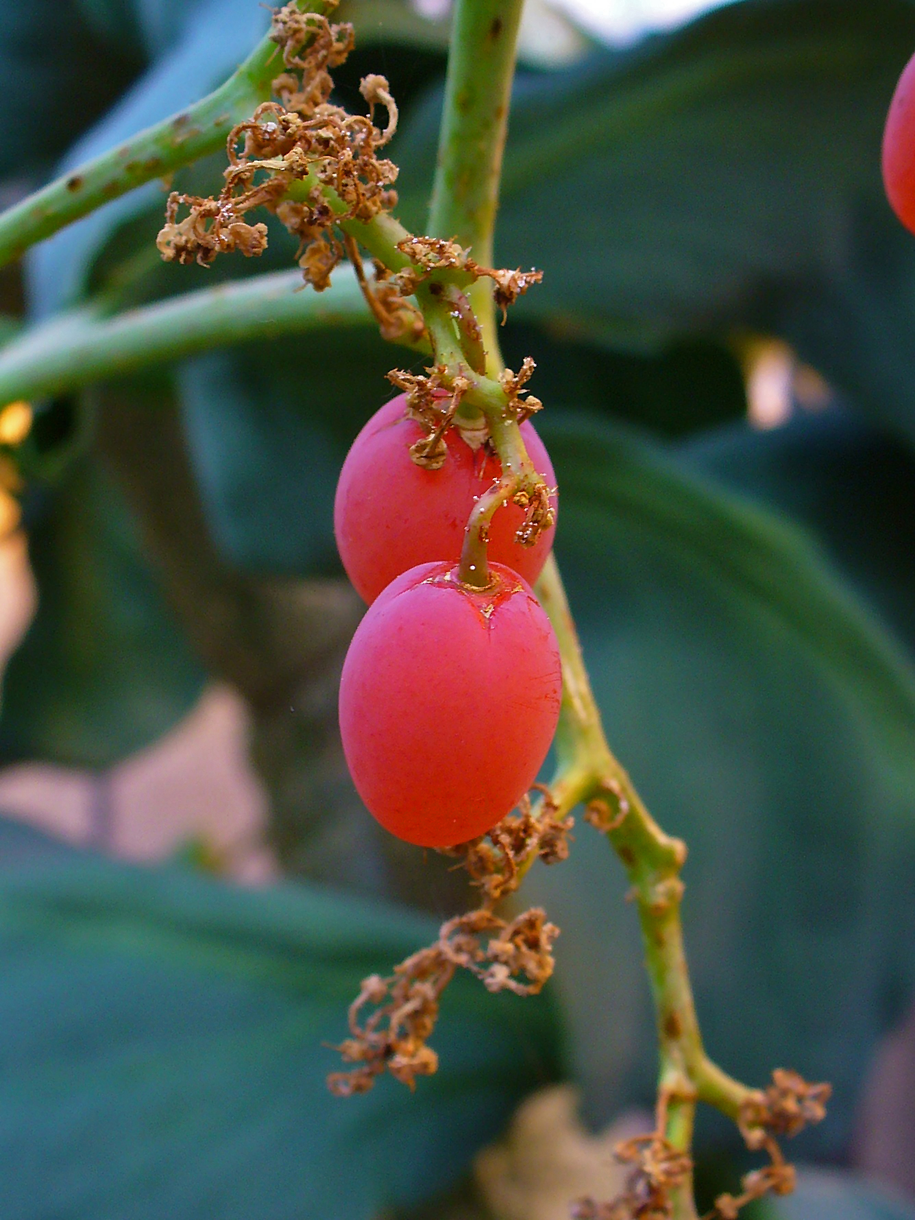 Cyphostemma bainesii, Vitaceae, African Grape Tree, fruits; Botanical Garden KIT, Karlsruhe, Germany.